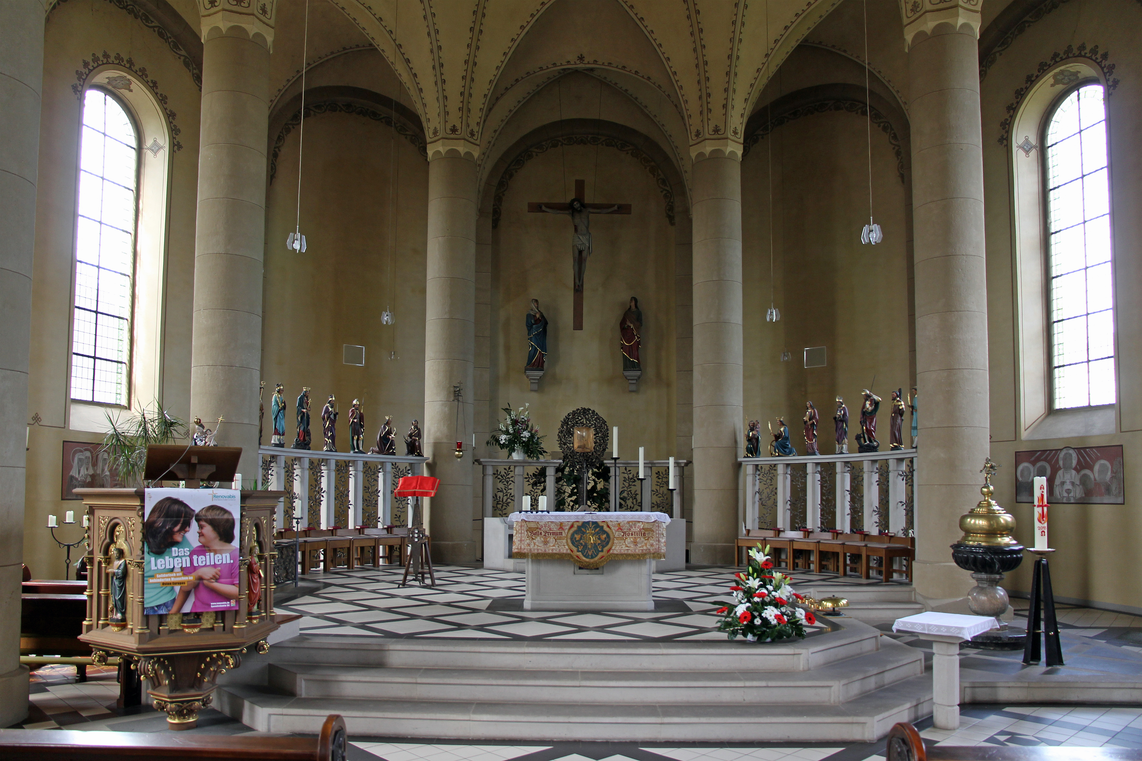 St. Servatius church in Koblenz